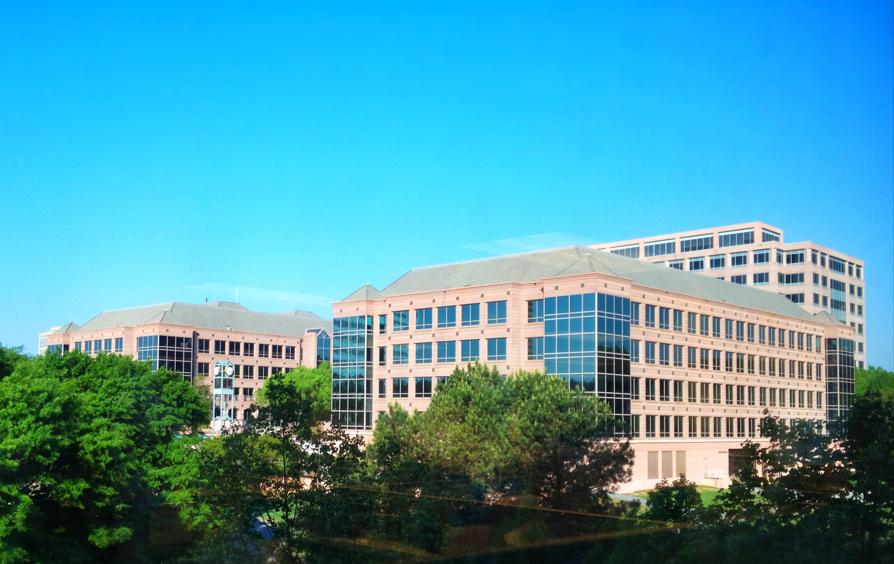 AT&T Mobility HQ in Lenox Park, Brookhaven, DeKalb County, Georgia.